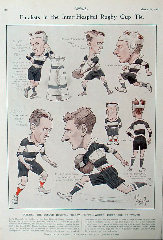 A Caricature of the Guy's Hospital Football Club in the 1922 final of the Inter-Hospitals Cup.